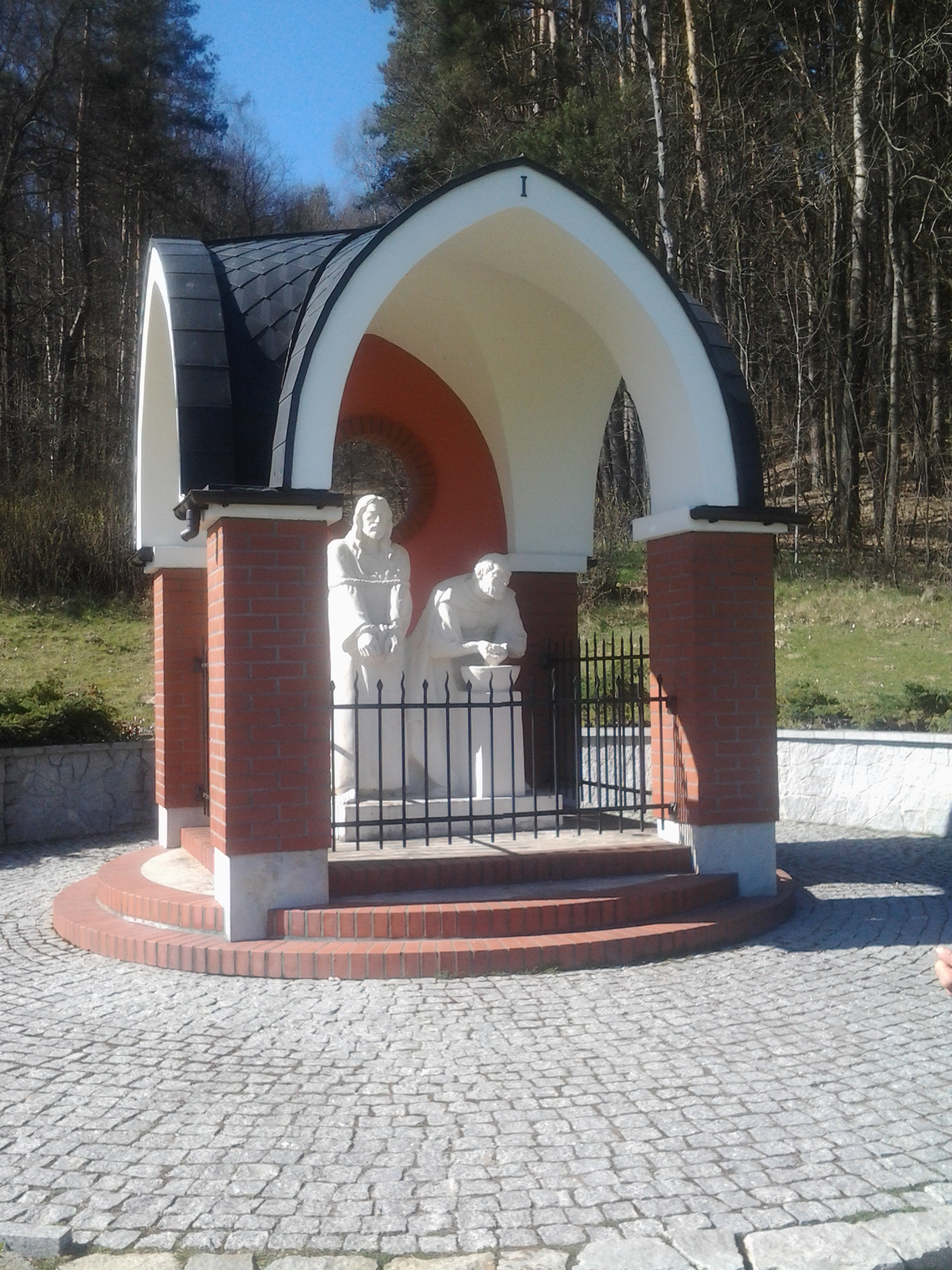 I Station